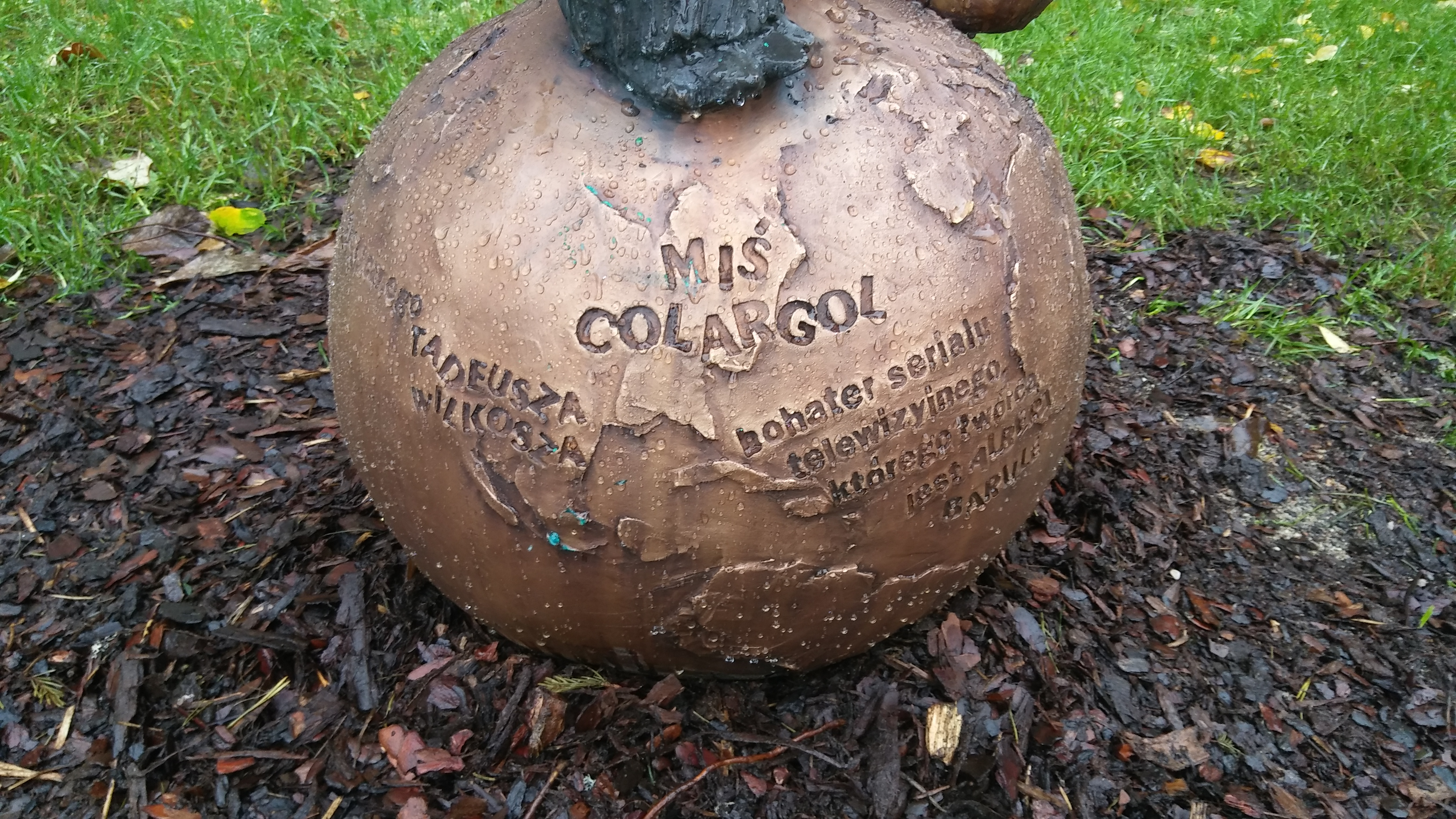 Colargol sculpture in Łódź (detail)